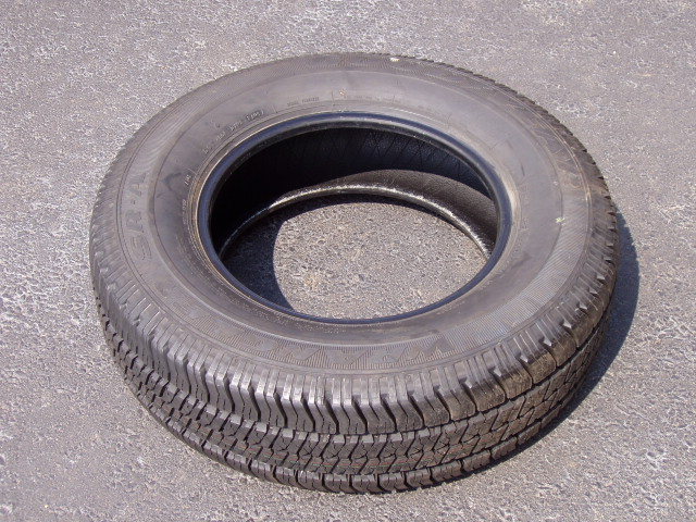 Goodyear Wrangler SR-A P235/70R16 tire